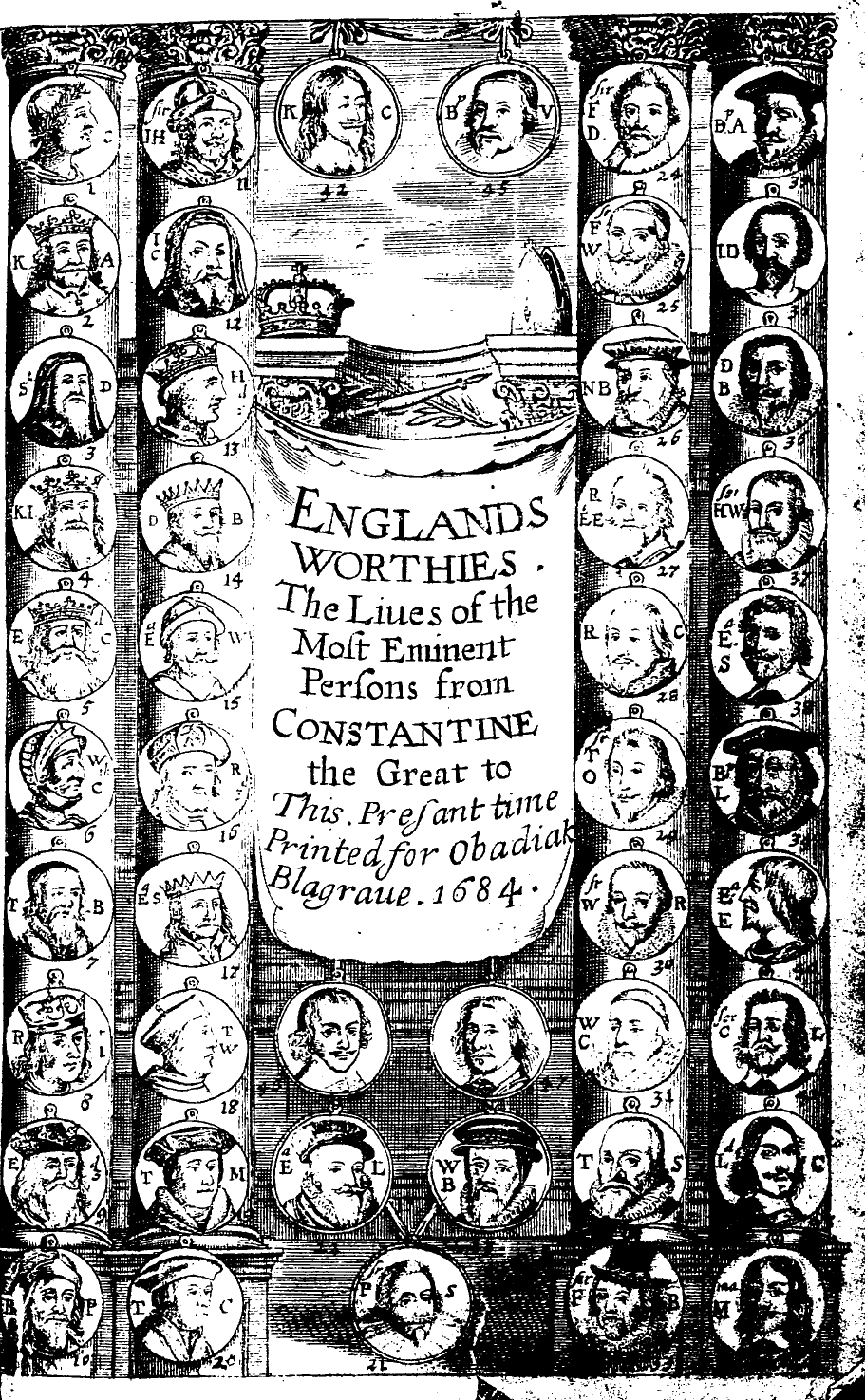 Frontispiece of William Winstanley's England's Worthies, edition of 1684. Downloaded from EEBO, Wing / W3059.